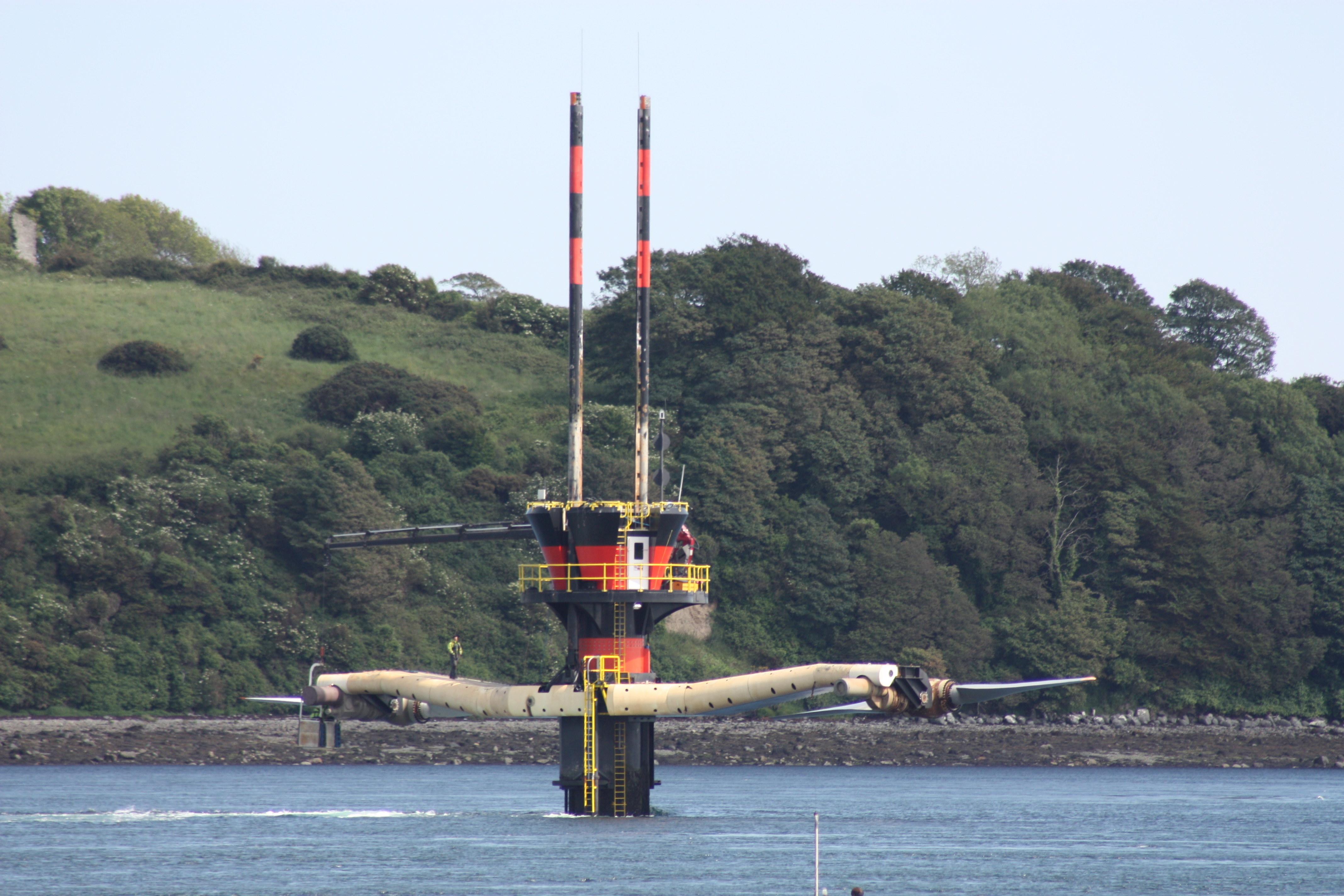 SeaGen tidal power plant, Strangford, County Down, Northern Ireland, June 2011 (blades raised for maintenance)